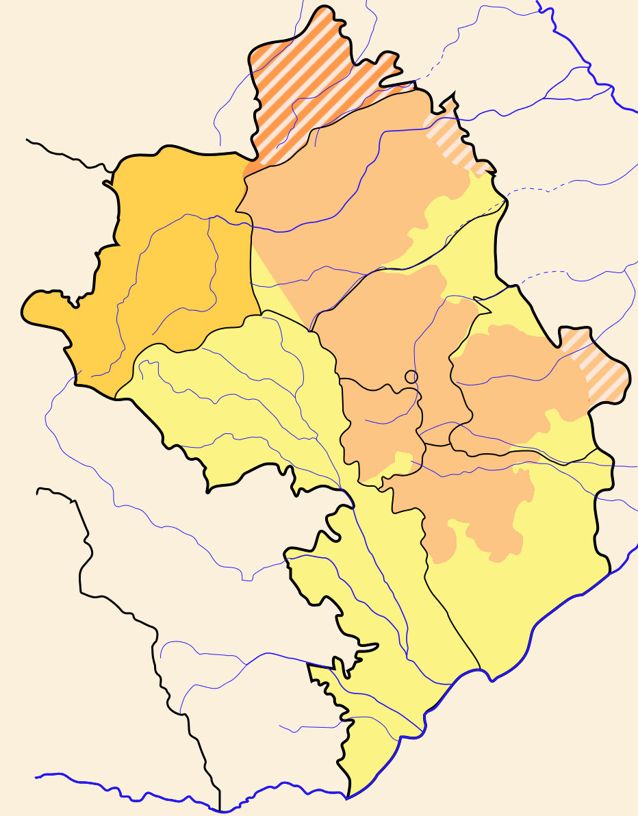 Rayon of Shahumian in NKR